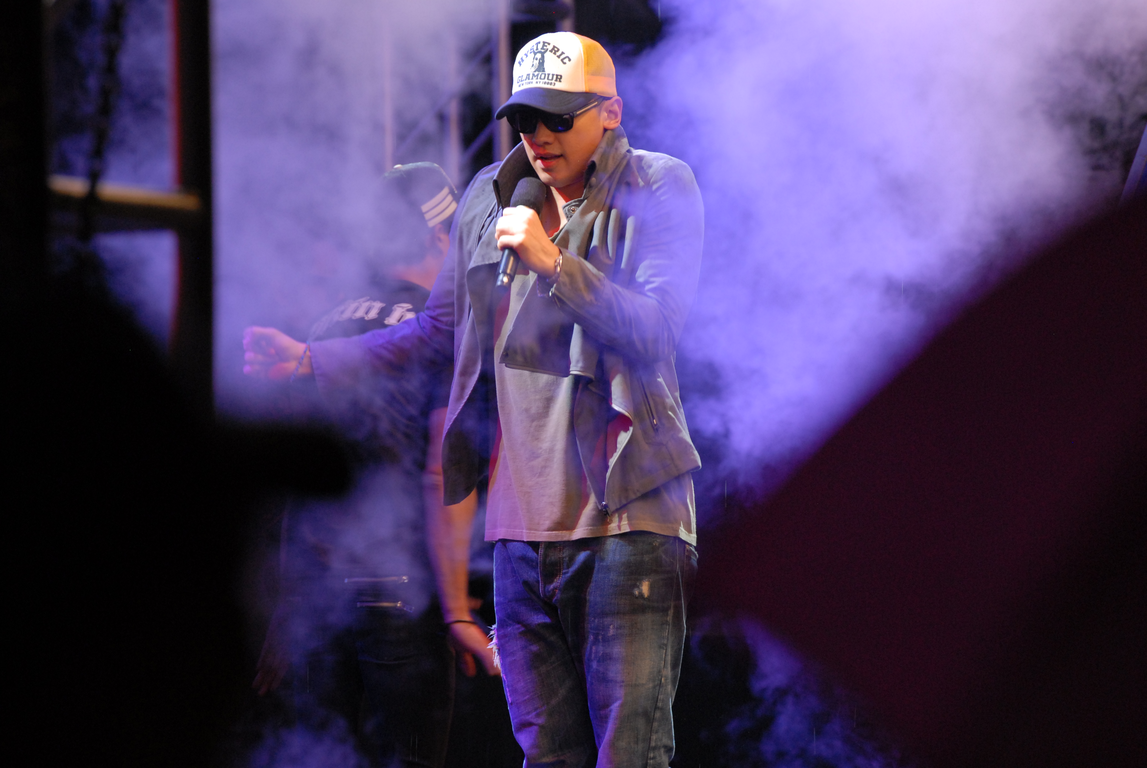 Jihoon Jeong, a South Korean actor and singer also known as Rain, performs for Republic of Korea Air Force, United States Air Force and civilian personnel on Kunsan Air Base, Rok., Sept. 13, 2012.